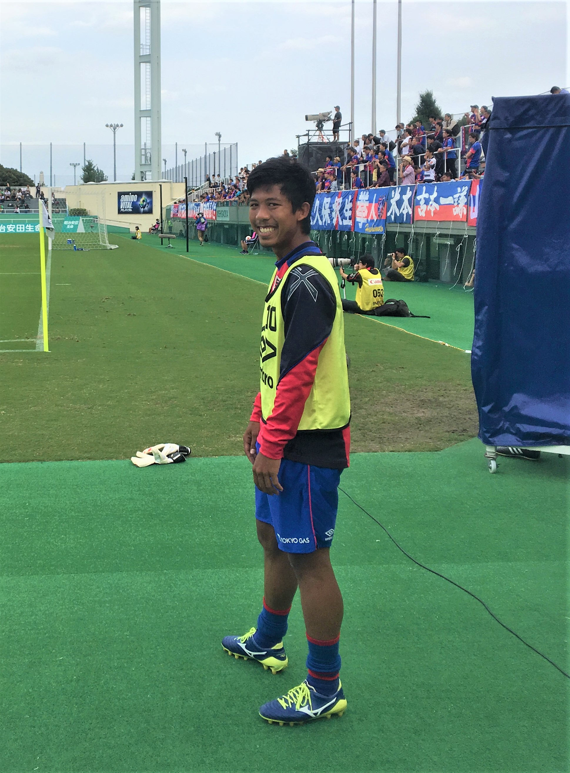 A picture of Jakkit Wachpirom warming up during a J3League game